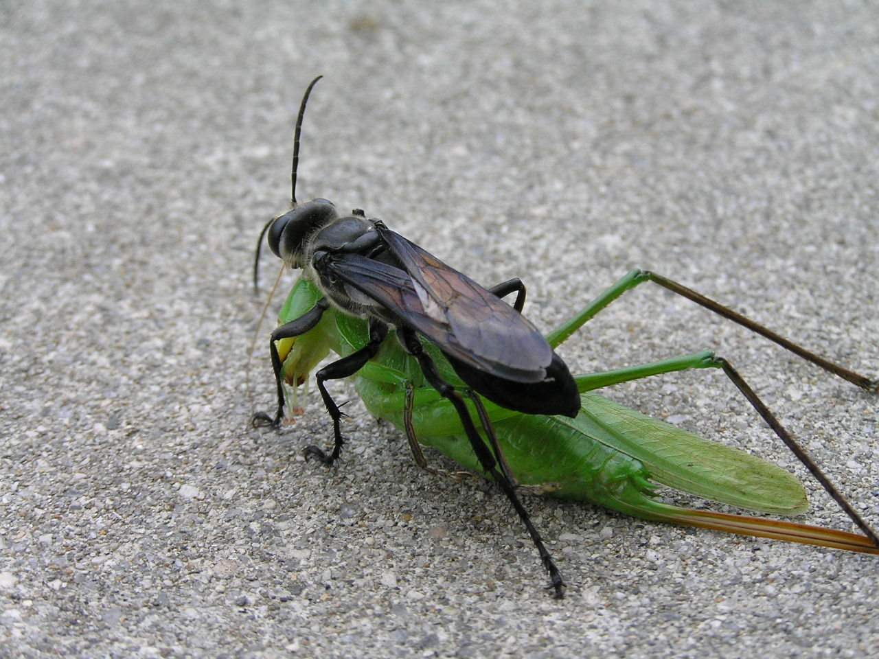 Sphex argentatus fumosus with caught Homorocoryphus lineosus to be parasitized. Japan